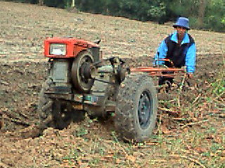 "E-tak" Kubota-powered tiller. Photographed in Sisaket Province.